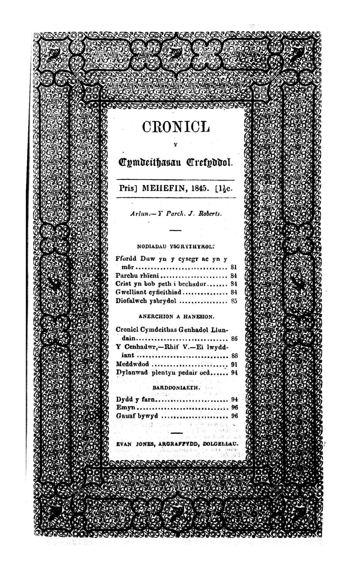 A monthly Welsh language periodical that circulated mainly among the Congregationalists. The periodical's main content were articles on religion, literature and radicalism, with the periodical reflecting the opinions of its founder and first editor the minister and Radical reformer, Samuel Roberts (S. R., 1800-1885). Samuel Roberts was followed as editor by his brother John Roberts (J. R., 1804-1884). Associated titles: Cronicl Canol y Mis (1871); Y Cronicl (1876).